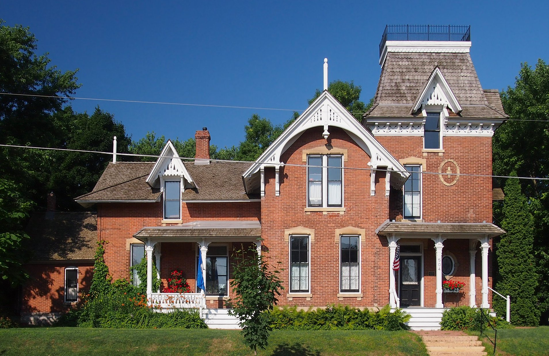 Capt. Austin Jenks House, 504 S 5th St, Stillwater, Minnesota, USA. Viewed from the east-northeast.